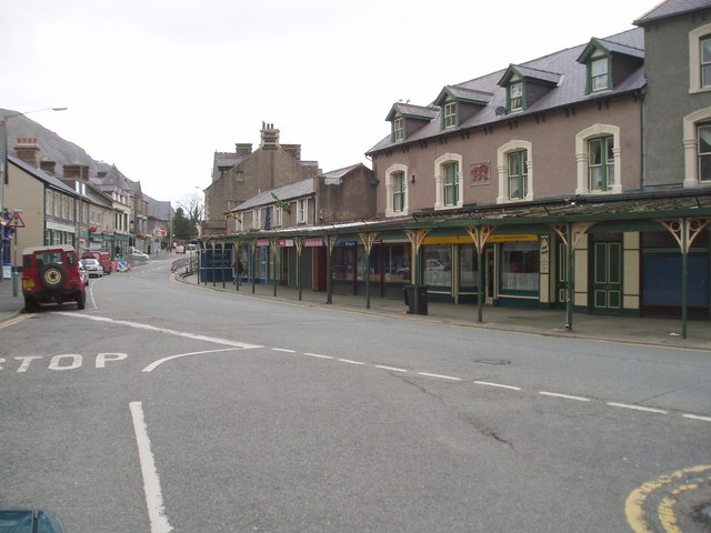 Penmaenmawr Main Street Taken at the junction of the Old Conwy Road. The main street was once the busy A55, before the new road was built.